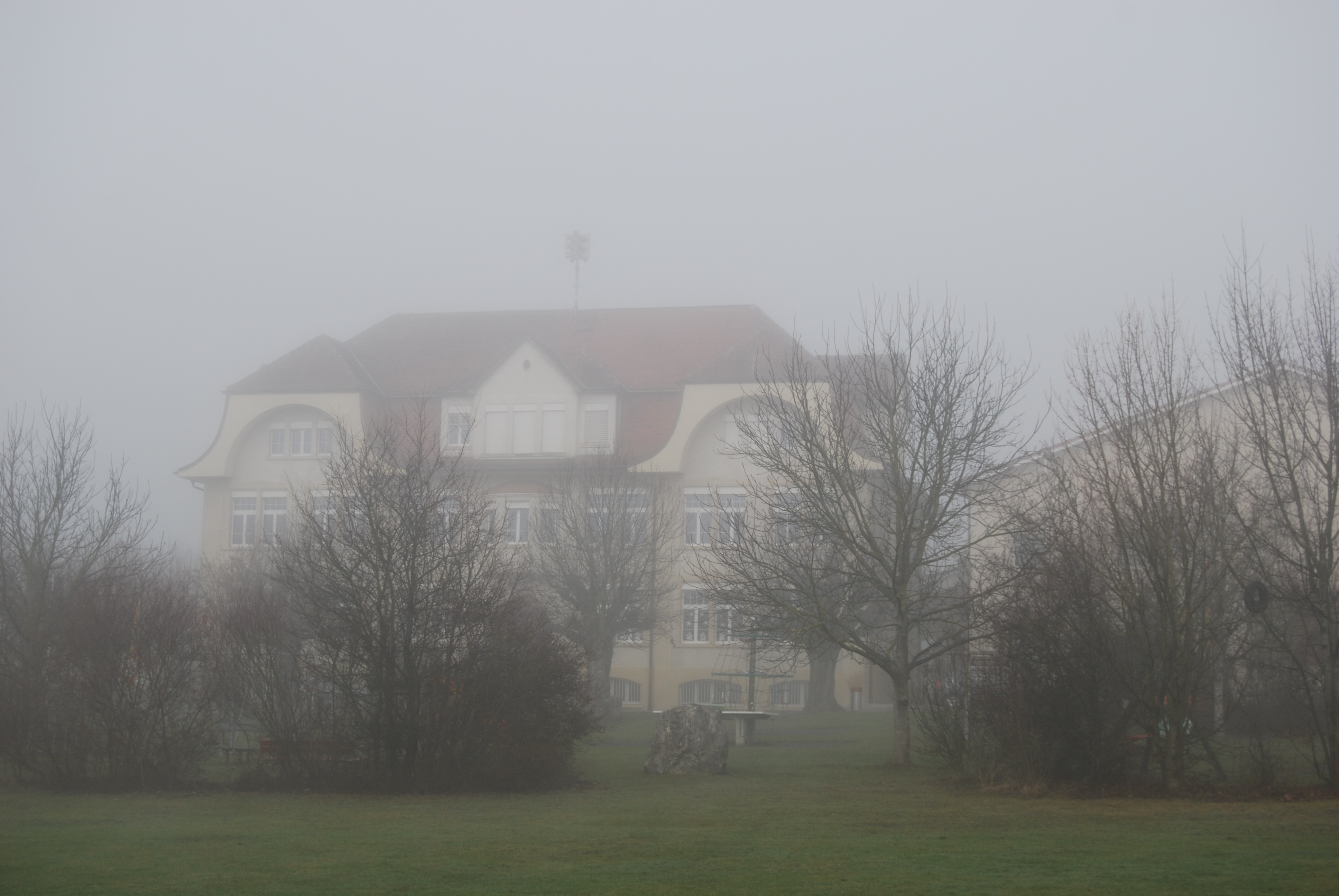 School of Laupersdorf in dense fog, canton of Solothurn, Switzerland